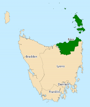 This image incorporates data that is: © Commonwealth of Australia (Australian Electoral Commission) 2009 Division of Bass 2010